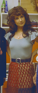 Maélys Morel in Q & Q